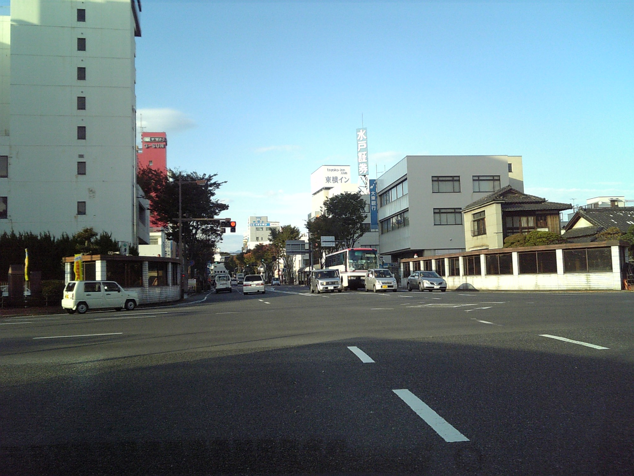 This photograph is the one that the starting point in the 399th general national roads in Japan was taken.